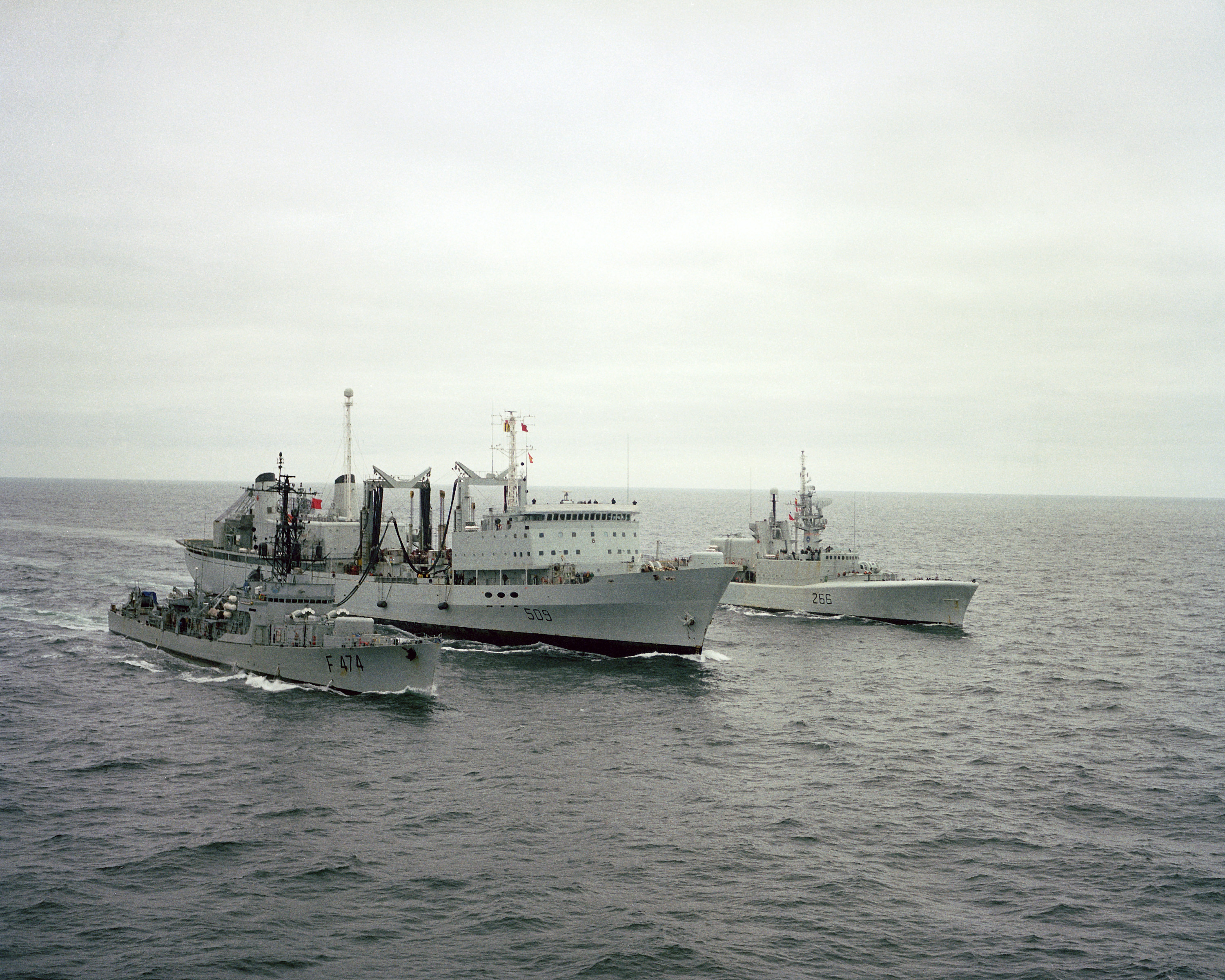 A starboard bow view of the Canadian replenishment ship HMCS Protecteur (AOR 509) refueling the Canadian destroyer escort HMCS Nipigon (DDH 266) off its port side and the Portuguese frigate Almirante Magalhaes Correa (F 474) off its starboard side.